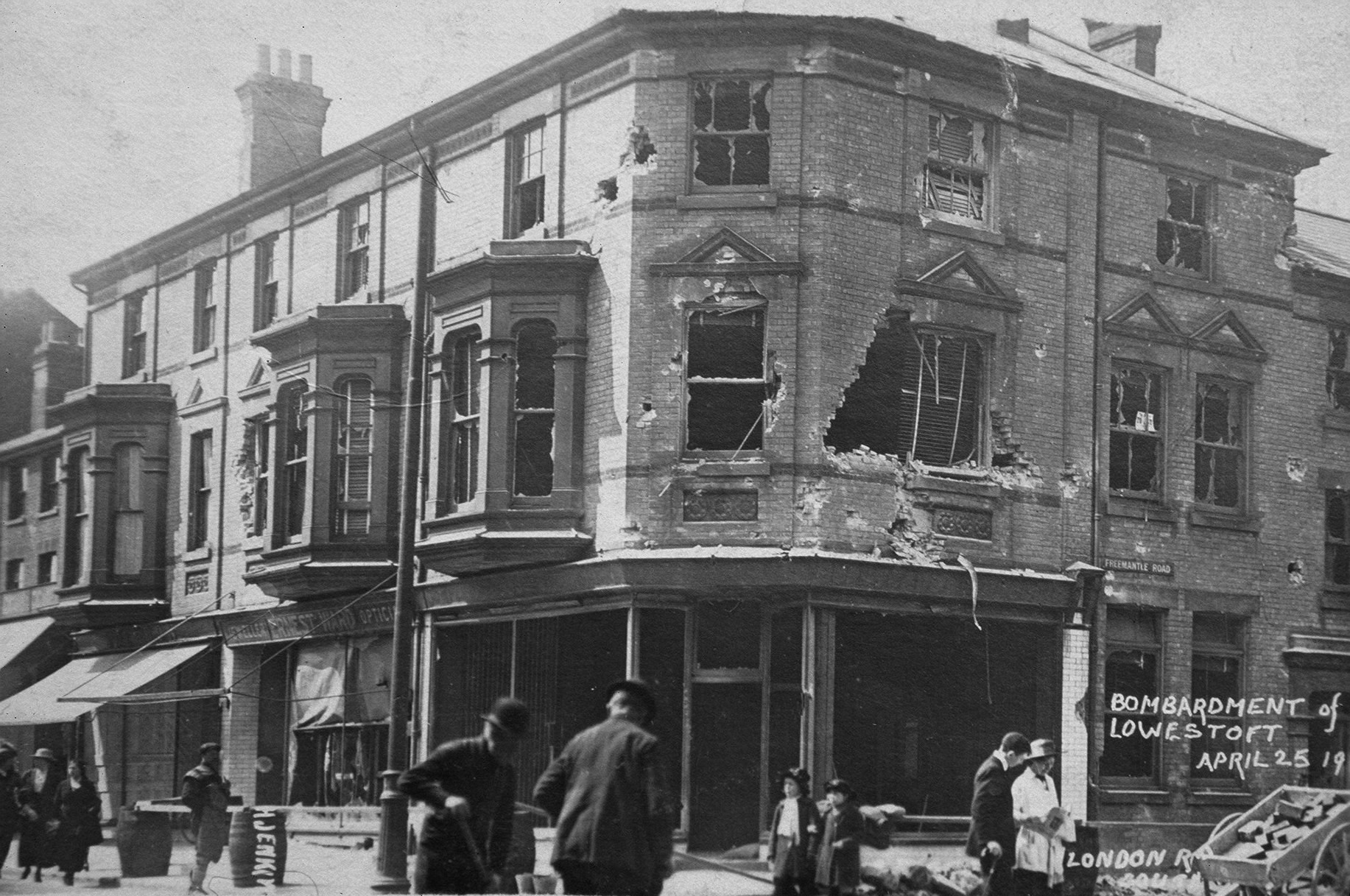 A photograph showing part of Lowestoft, England, following the bombardment of the town 24 April 1916